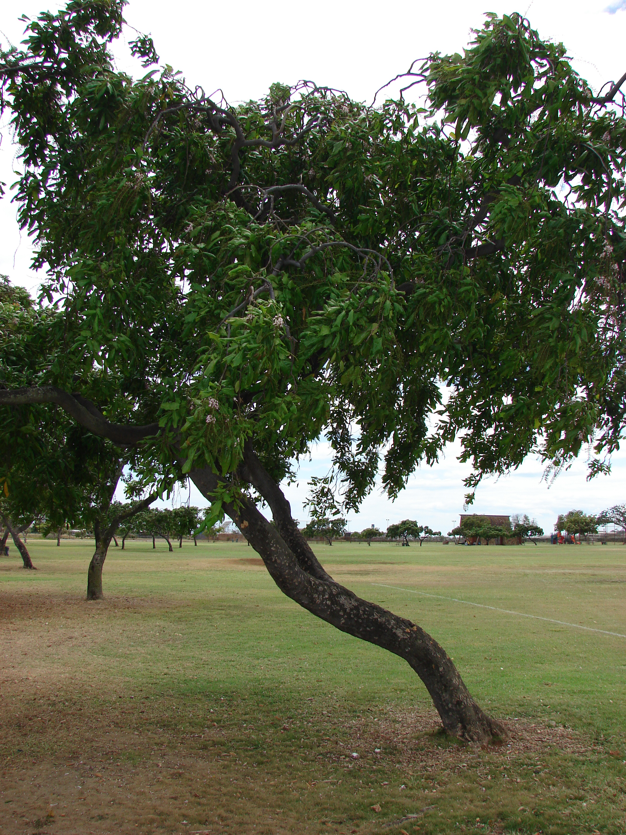 Milletia pinnata (habit). Location: Oahu, Keehi Lagoon